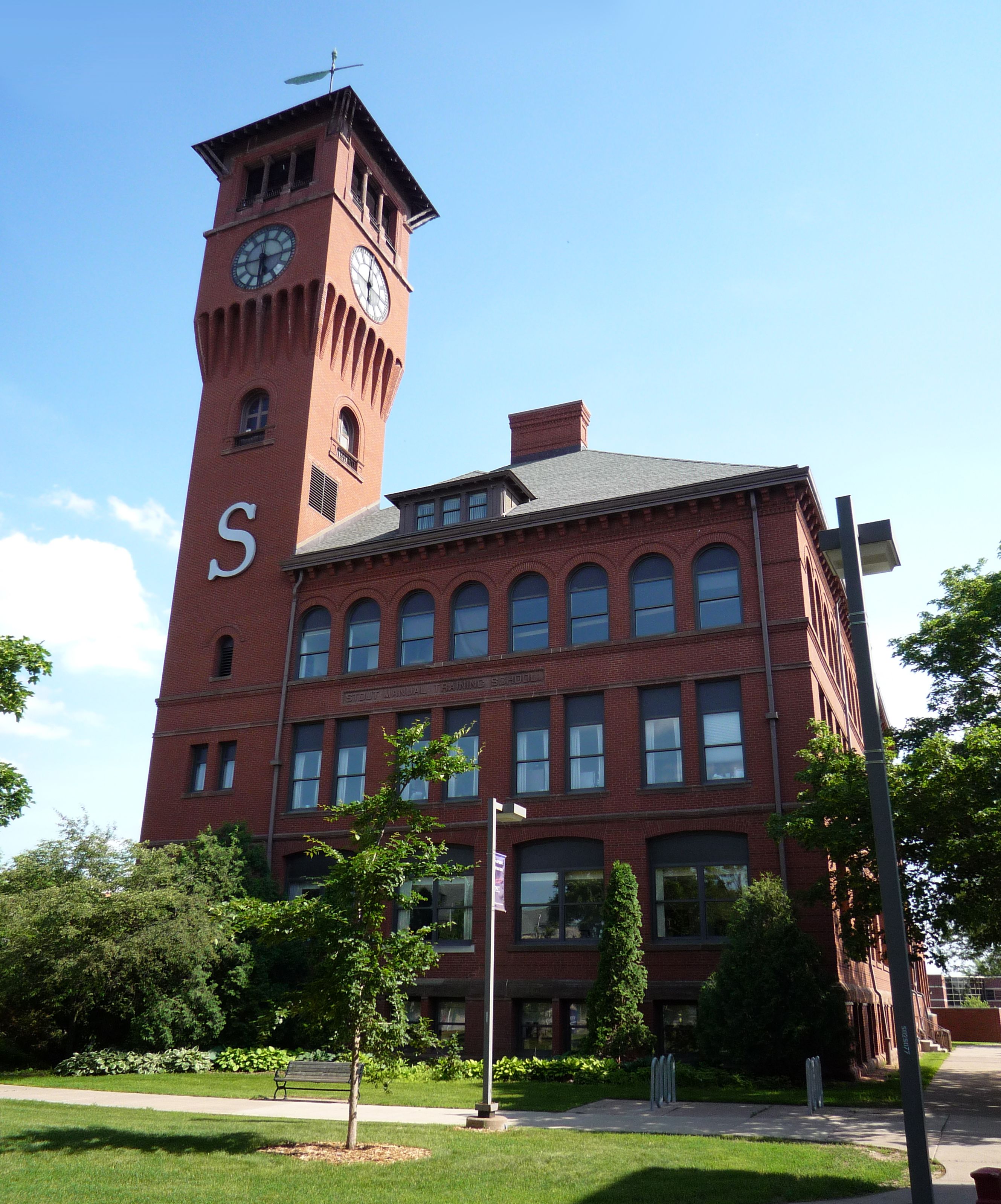 Bowman Hall (1897), University of Wisconsin-Stout, Menomonie, Wisconsin, USA.